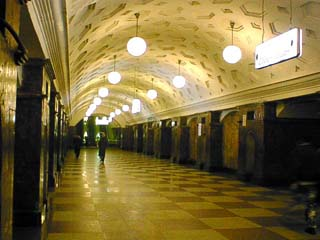 Moscow Metro, Krasniye Vorota station.